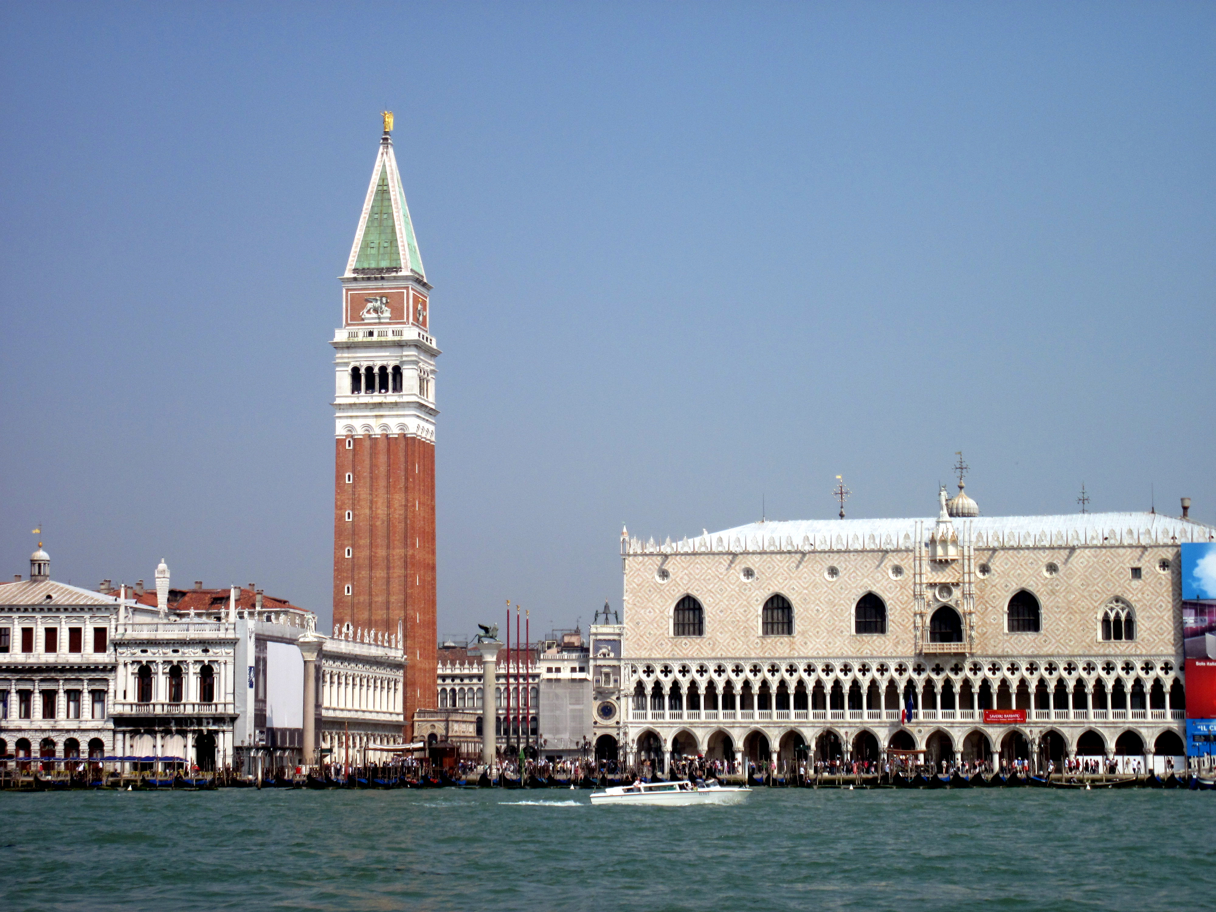 Venice